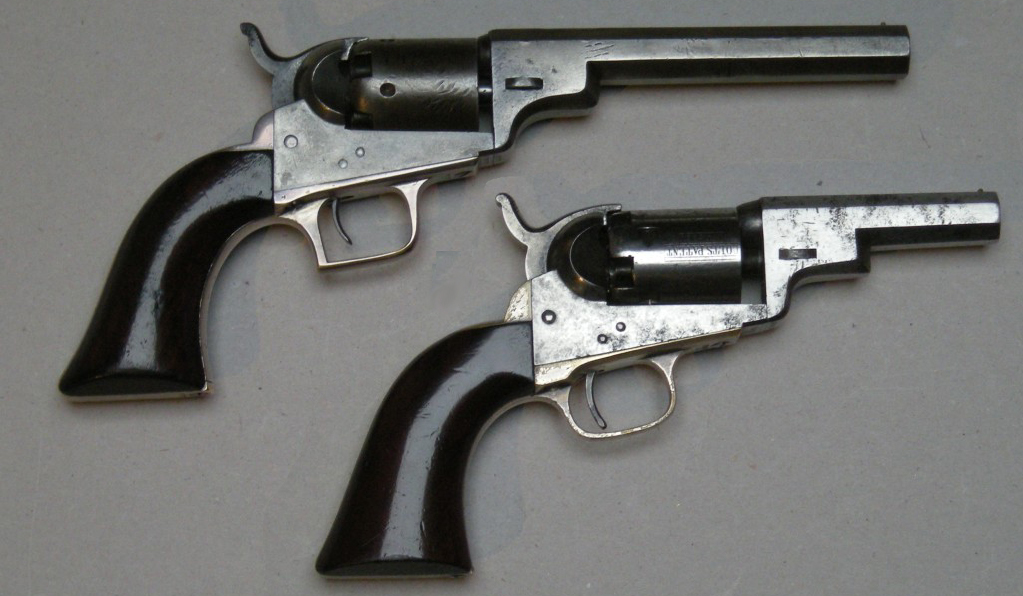 Colt Pocket 48 49